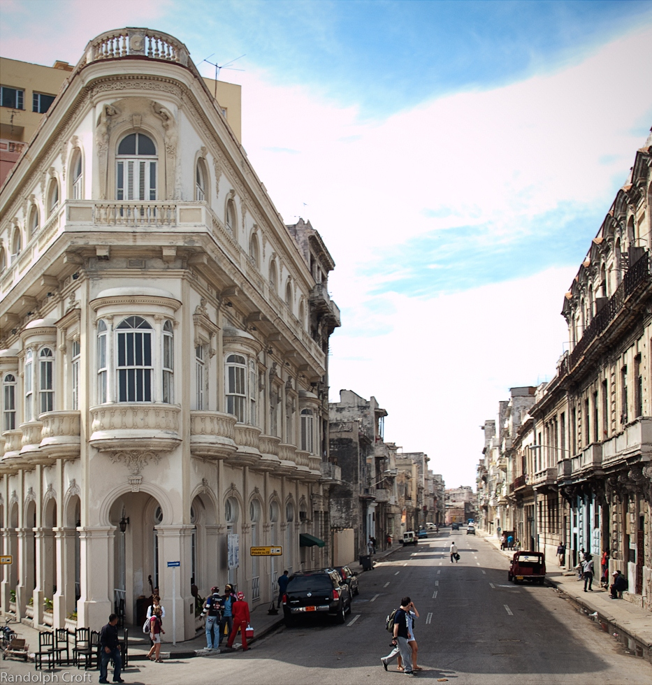 Paseo del Prado and San Lazaro Street, Centro Habana, Cuba